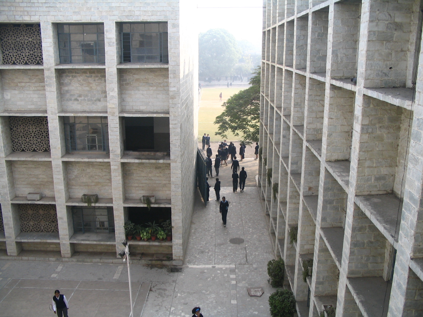 Building of The Mother's International School, New Delhi, India